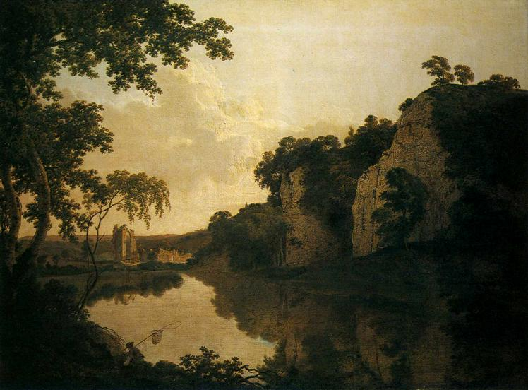 Joseph Wright of Derby. Landscape with Dale Abbey and Church Rocks. c.1785. Oil on canvas. 72.4 x 99 cm. Sheffield City Art Galleries, Sheffield, UK.